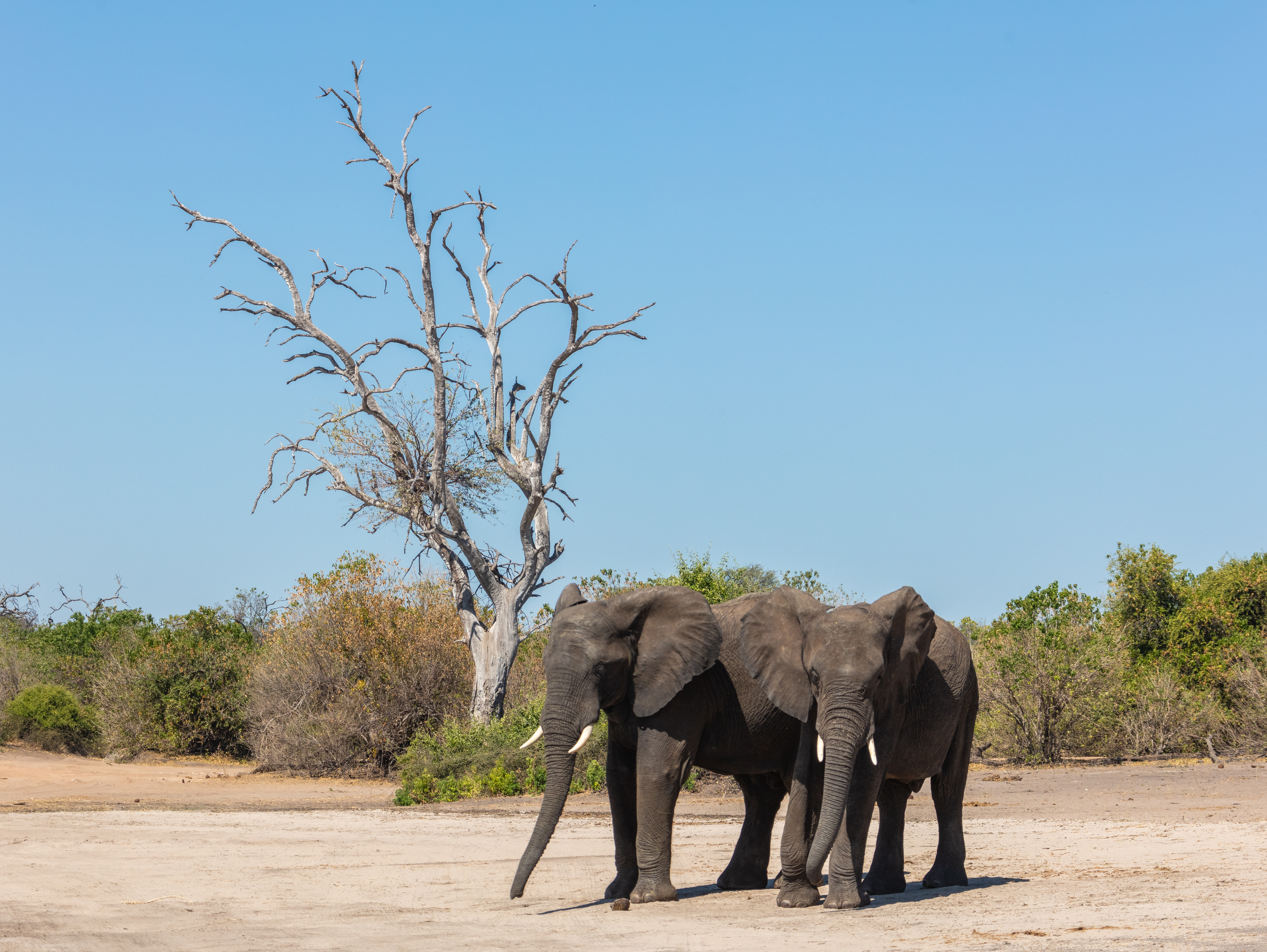 African bush elephants (Loxodonta africana), Chobe National Park, Botsuana